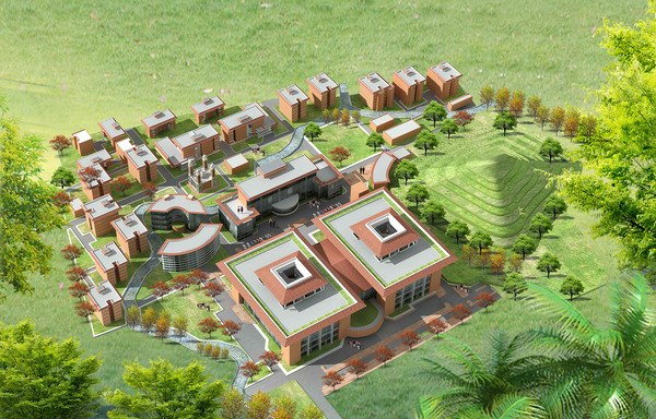 Design of CxMC